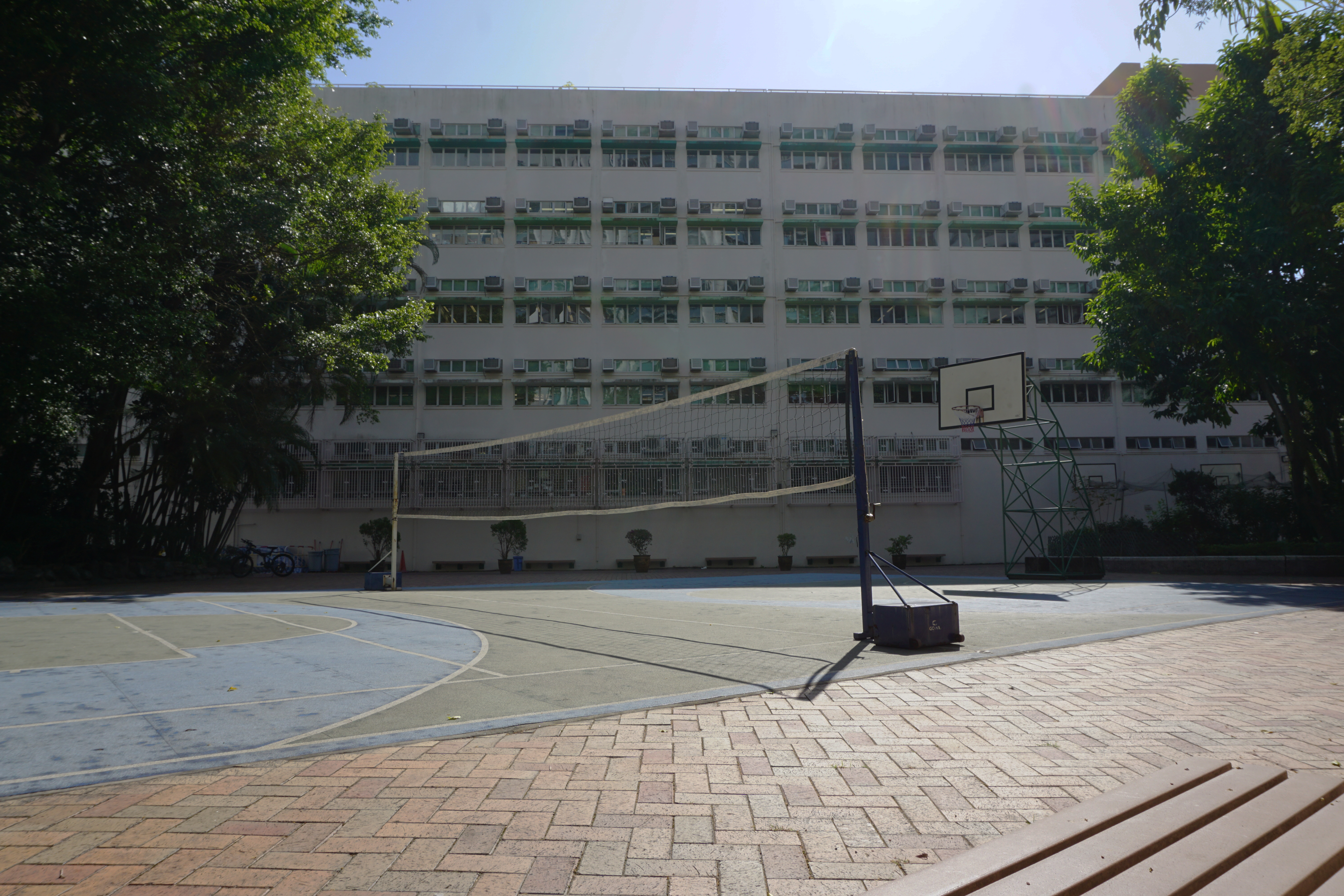 SALEM-Immanuel Lutheran College in Tai Po, Hong Kong.